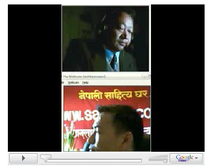 A poem was recited in first online world webcam poem competition 2007